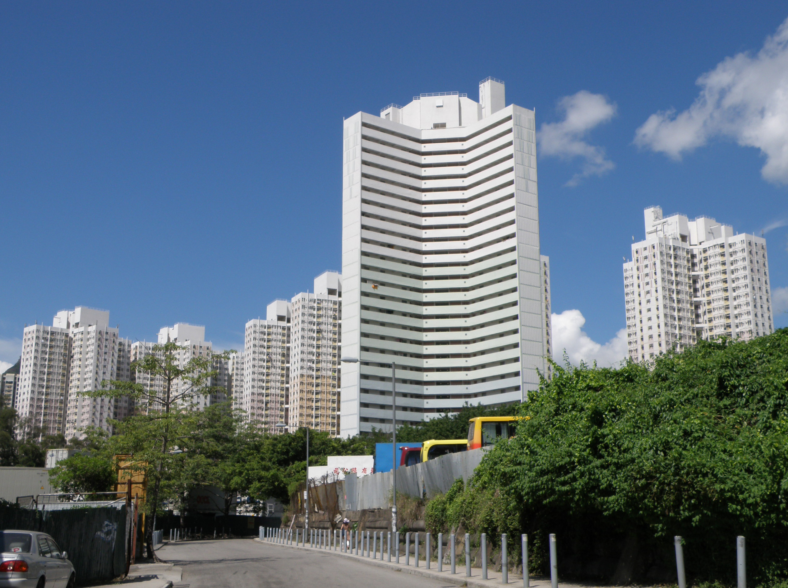 Po Tin Estate in Tuen Mun, Hong Kong.